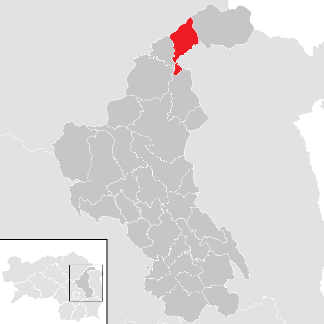 district Weiz